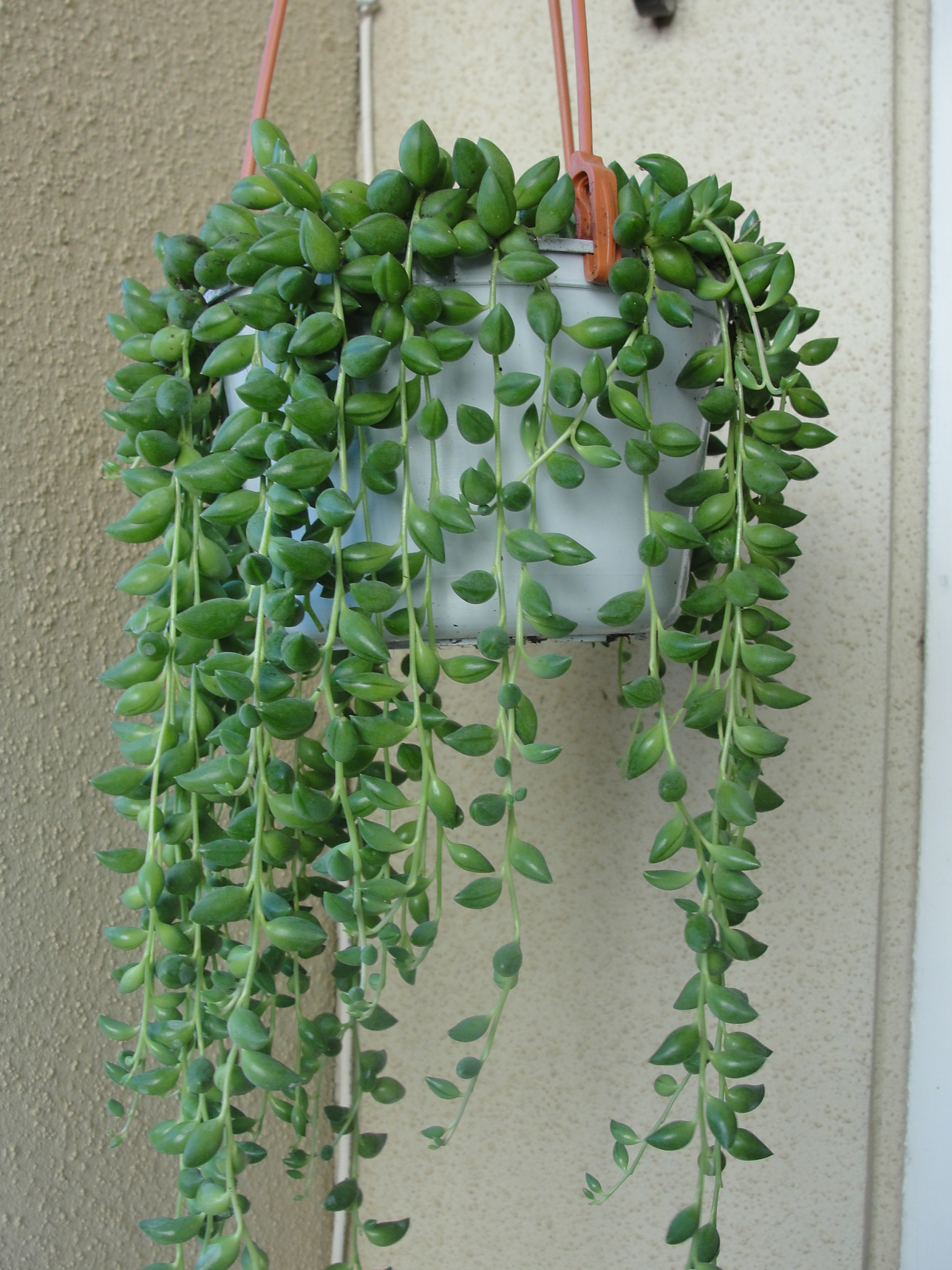 Senecio herreianus